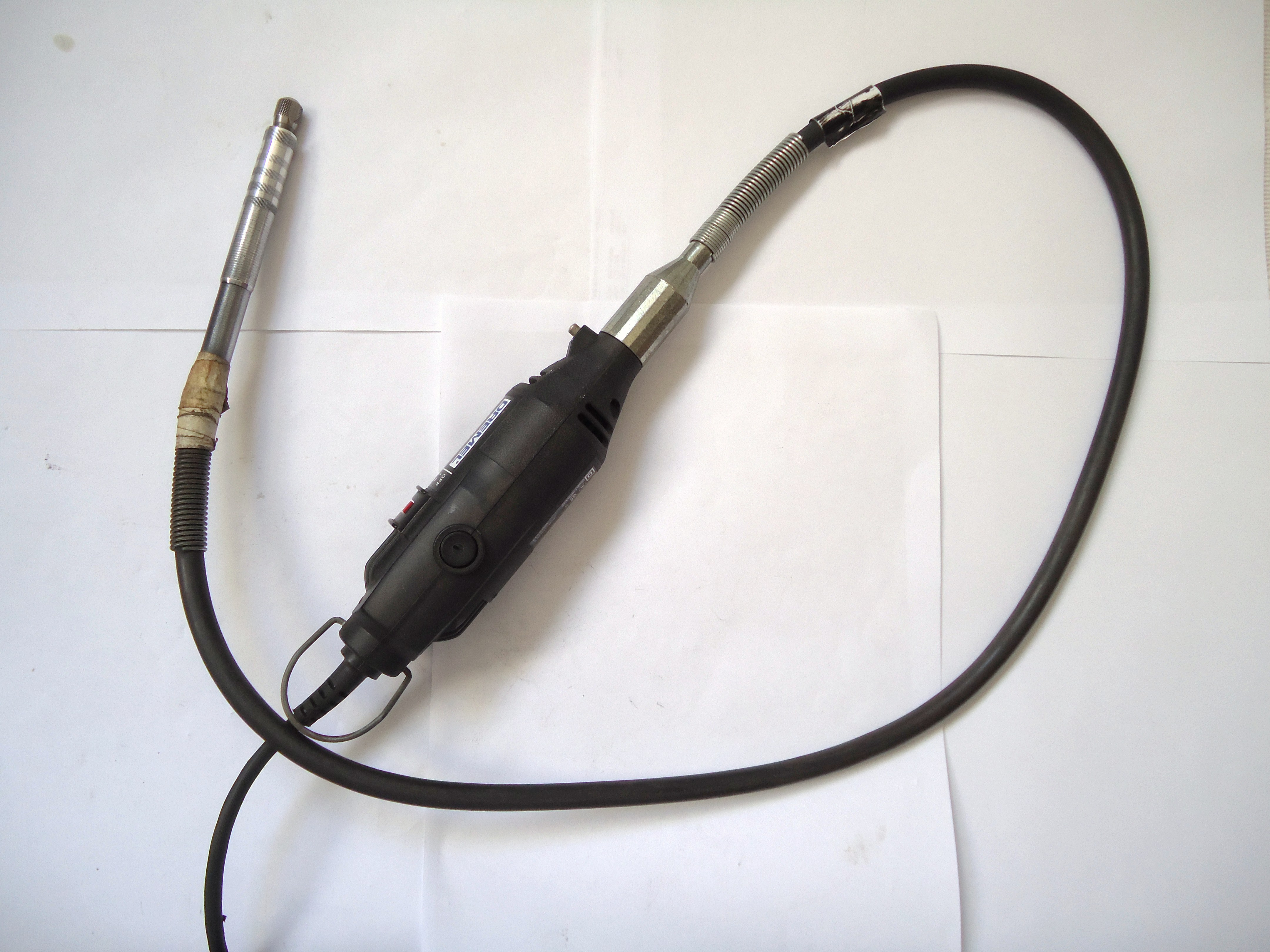 Flexible shaft motor (pendant drill), for jewellery. Photo : Mauro Cateb, Brazilian jeweler.